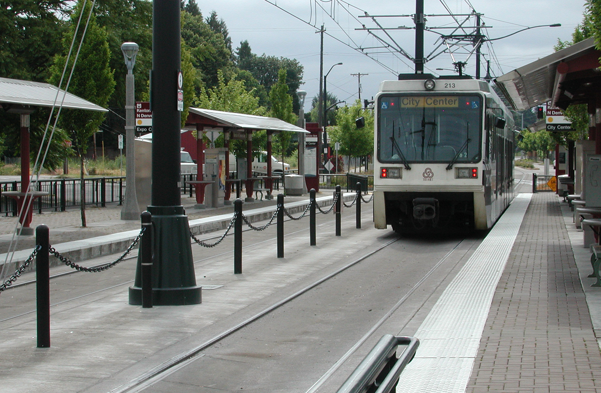 A train waits at the Kenton/North Denver Avenue station of the Metropolitan Area Express (MAX) light-rail system in Portland, Oregon, United States. View is to the north.